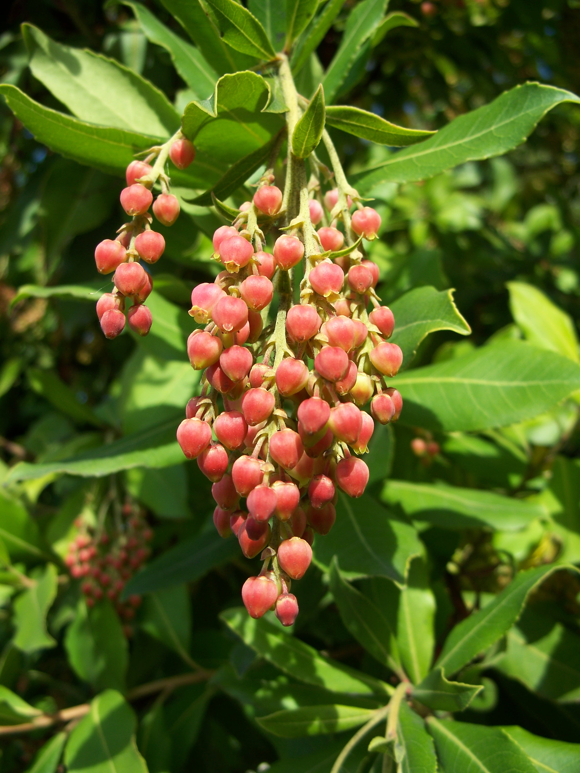 Pacific Madrone